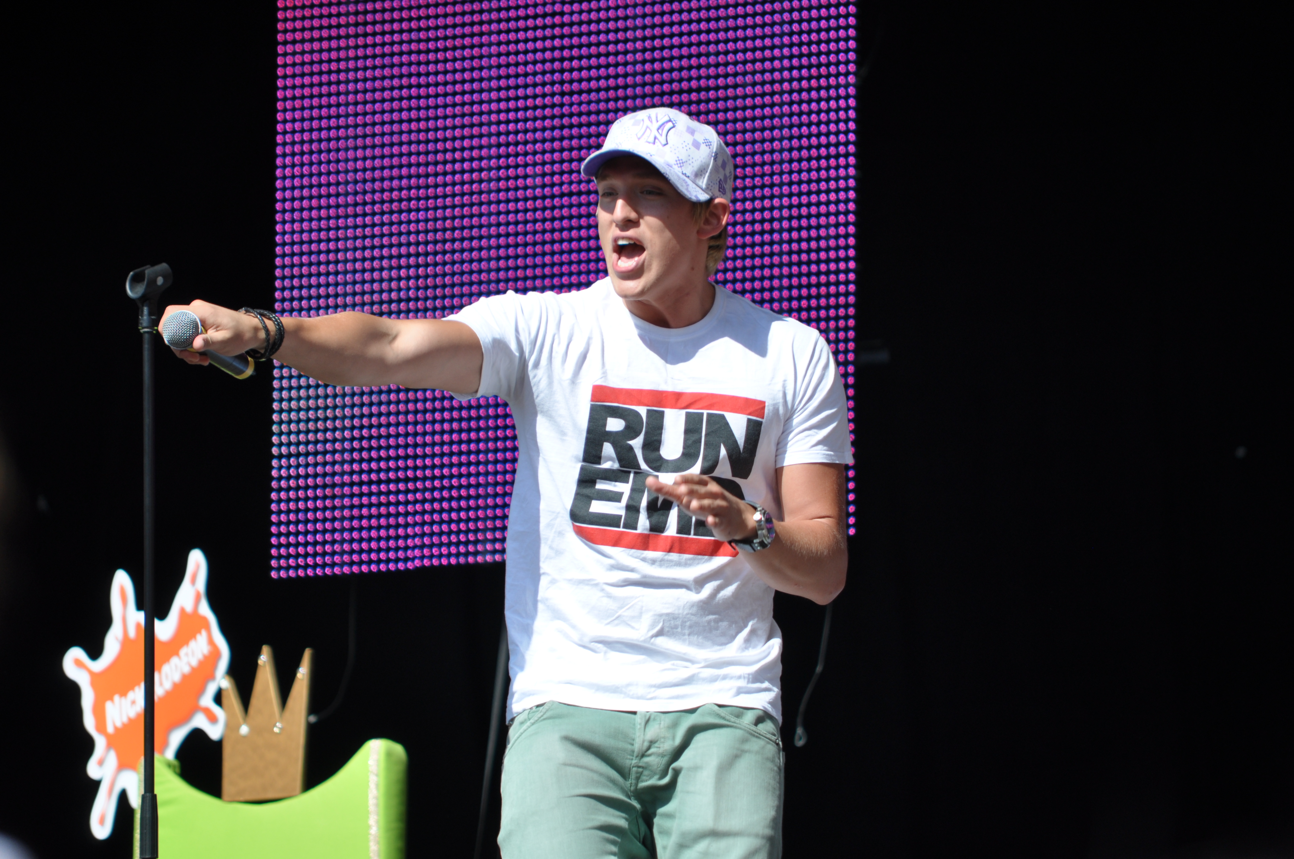 Danny Saucedo at Malmöfestivalen with Funballz, Nickelodeon and tivoli